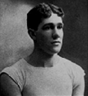 John McLean, USA, Athlete and silver medalwinner at the 1900 Olympic Games, 110 meters hurdles. photography, adapted reproduction, no restrictions on use